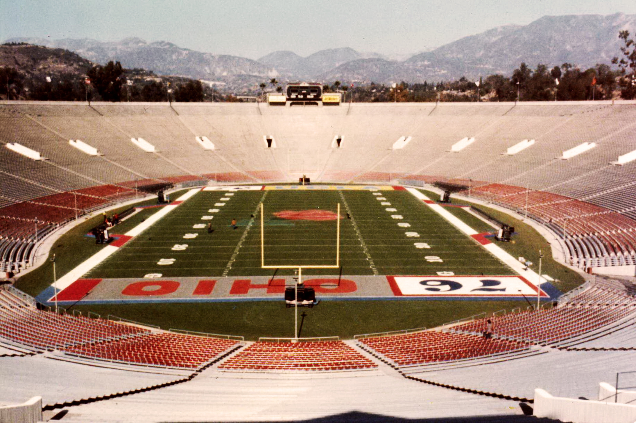 Photo of the Rose Bowl that has been taken right before the Rose Bowl of 1976 when Ohio was beat by UCLA